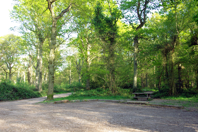 Parkwood Picnic Site Although the wood is Park Wood, Kent CC have called their picnic site Parkwood, at least on the entrance name board.